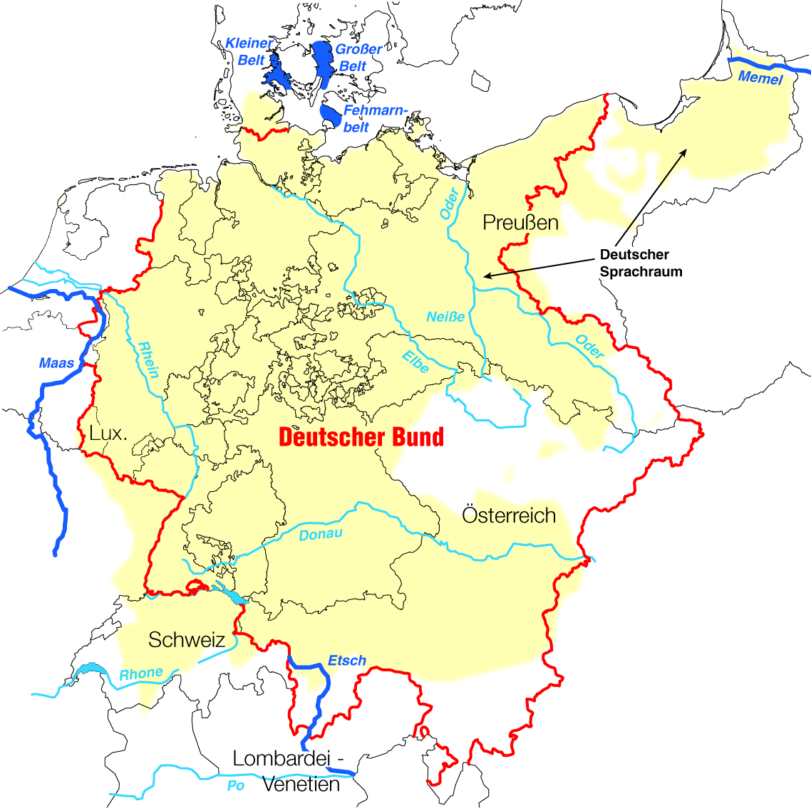 The German national anthem „Deutschlandlied“ was written in 1841, giving four water bodies as the German borders: "Von der Maas bis an die Memel, von der Etsch bis an den Belt". This map outlines them as well as the border of the German Confederation and its reletionship to the borders of the German language area of that time.